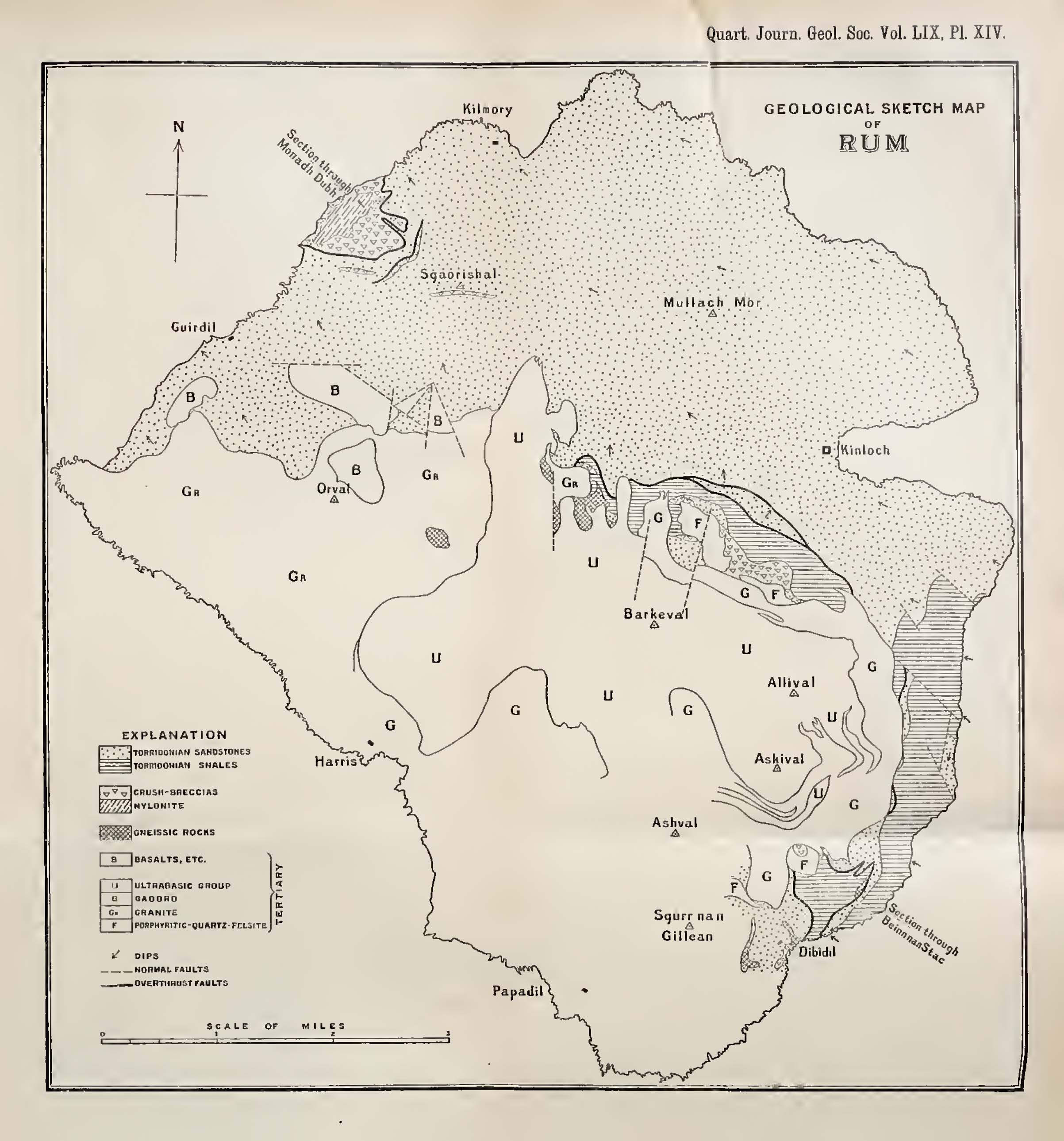 Geological Map Isle of Rum from Alfred Harker, textsThe overthrust torridonian rocks of the Isle of Rum, 1903